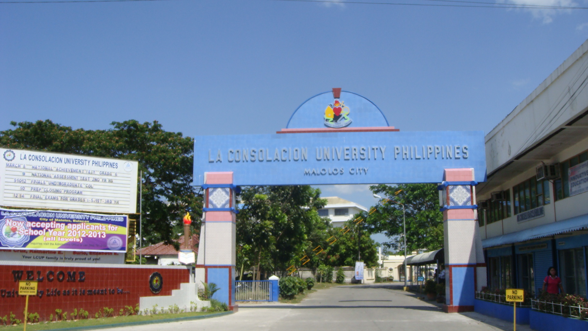 Welcome Arch, La Consolacion University Philippines, Catmon Campus, City of Malolos, Bulacan, Philippines 3000[1]